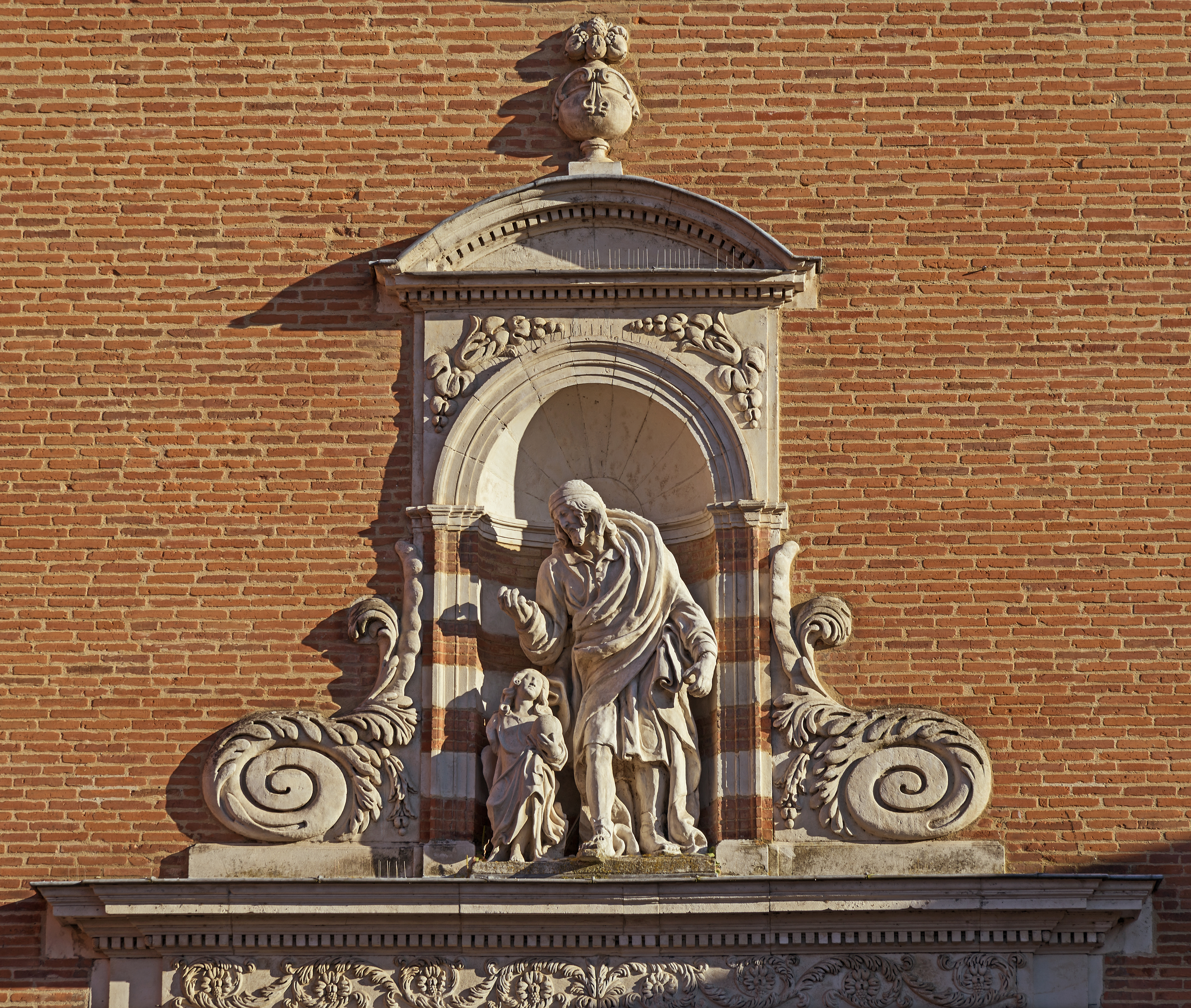 Church Saint-Exupère from Toulouse. Statue of St. Joseph and the infant Jesus by Gervais Drouet in 1658.